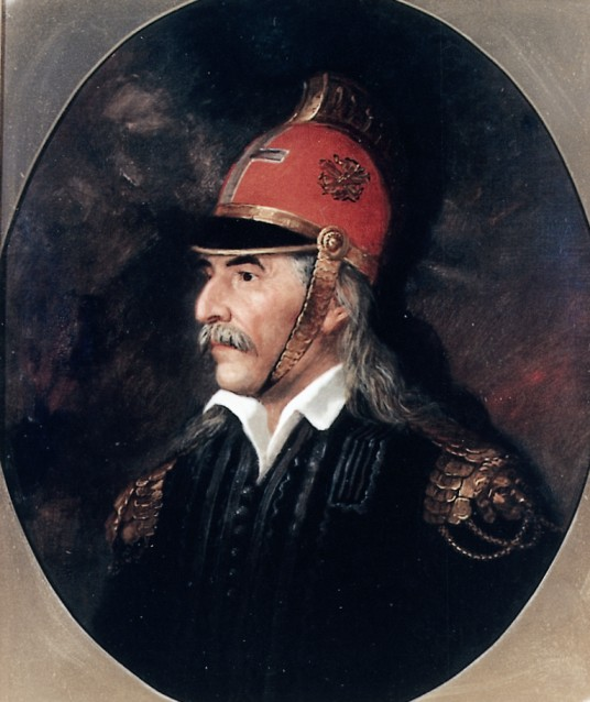 Theodore Kolokotronis, 1853. Θεόδωρος Κολοκοτρώνης Μεγέθυνση Εκτύπωση Αγνώστου, 1853. Λάδι σε μουσαμά.